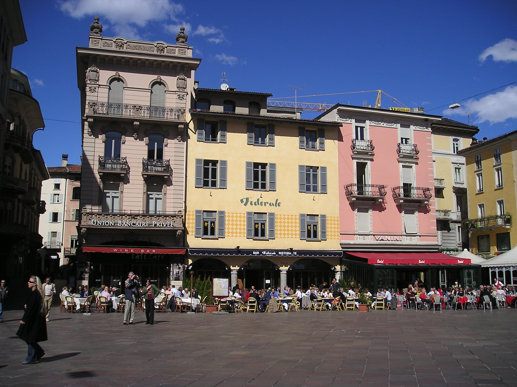 Piazza Riforma in Lugano, canton of Ticino, Switzerland